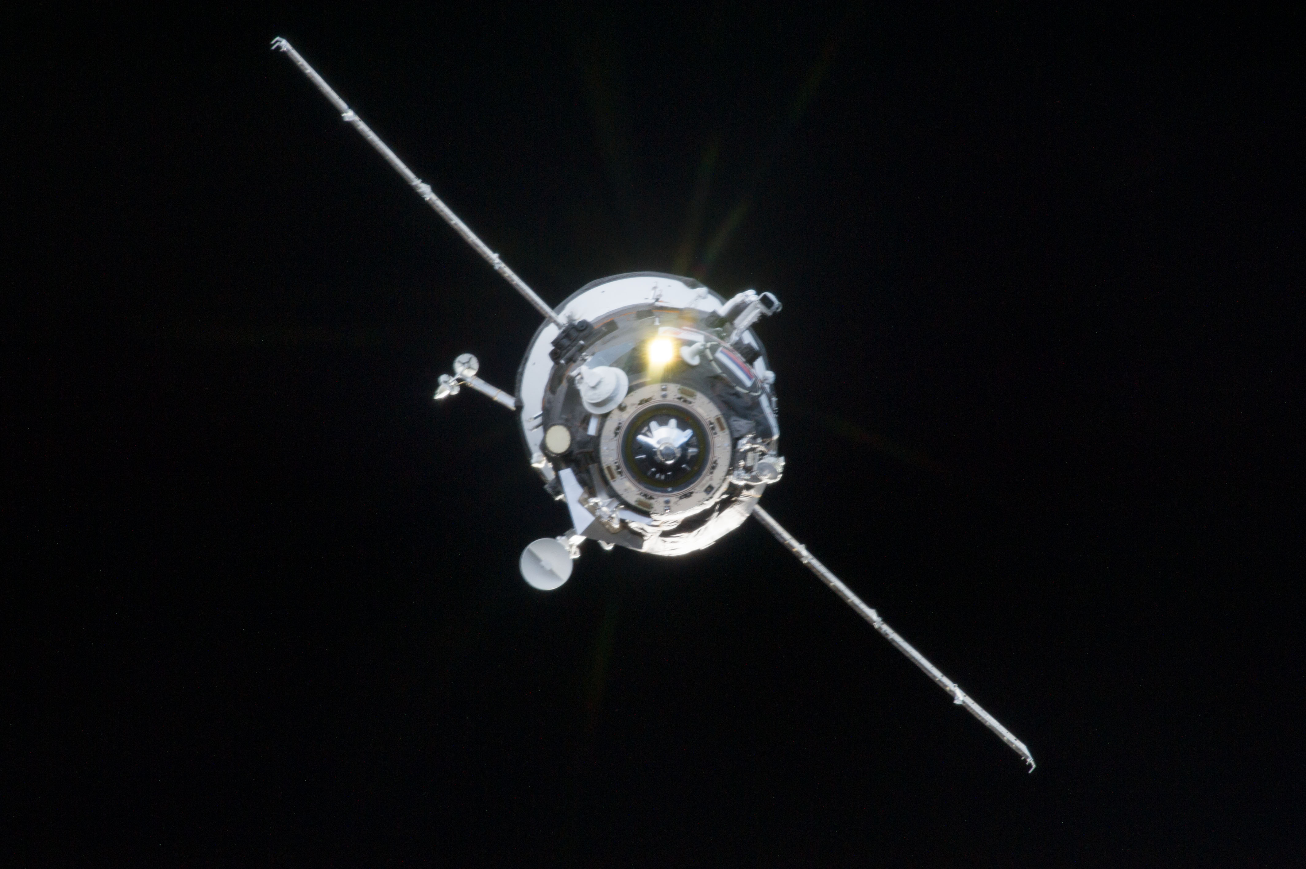 Surrounded by the blackness of space, the Russian Progress 51 cargo craft approaches the Zvezda service module (out of frame)of the International Space Station on April 26, 2013. The unmanned cargo vehicle minutes later successfully docked with the orbital outpost.